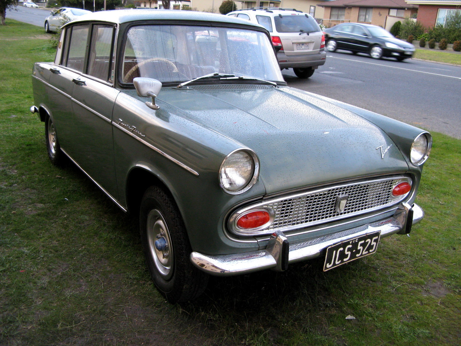 1960-1964 Toyota Tiara T20